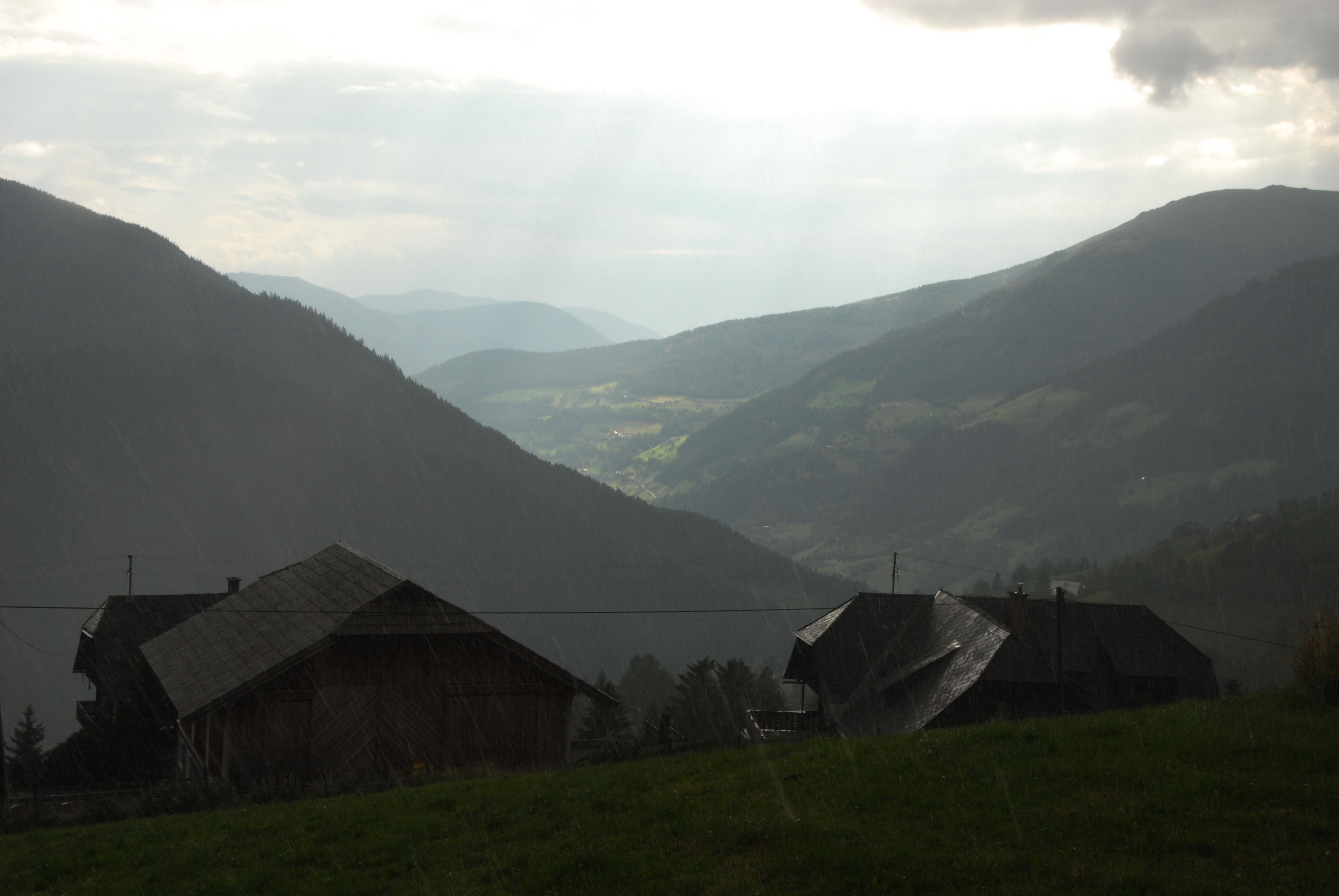 View from the mountain village Saint Lorenzen at the upper Gurktal, municipality Reichenau, district Feldkirchen, Carinthia / Austria / EU